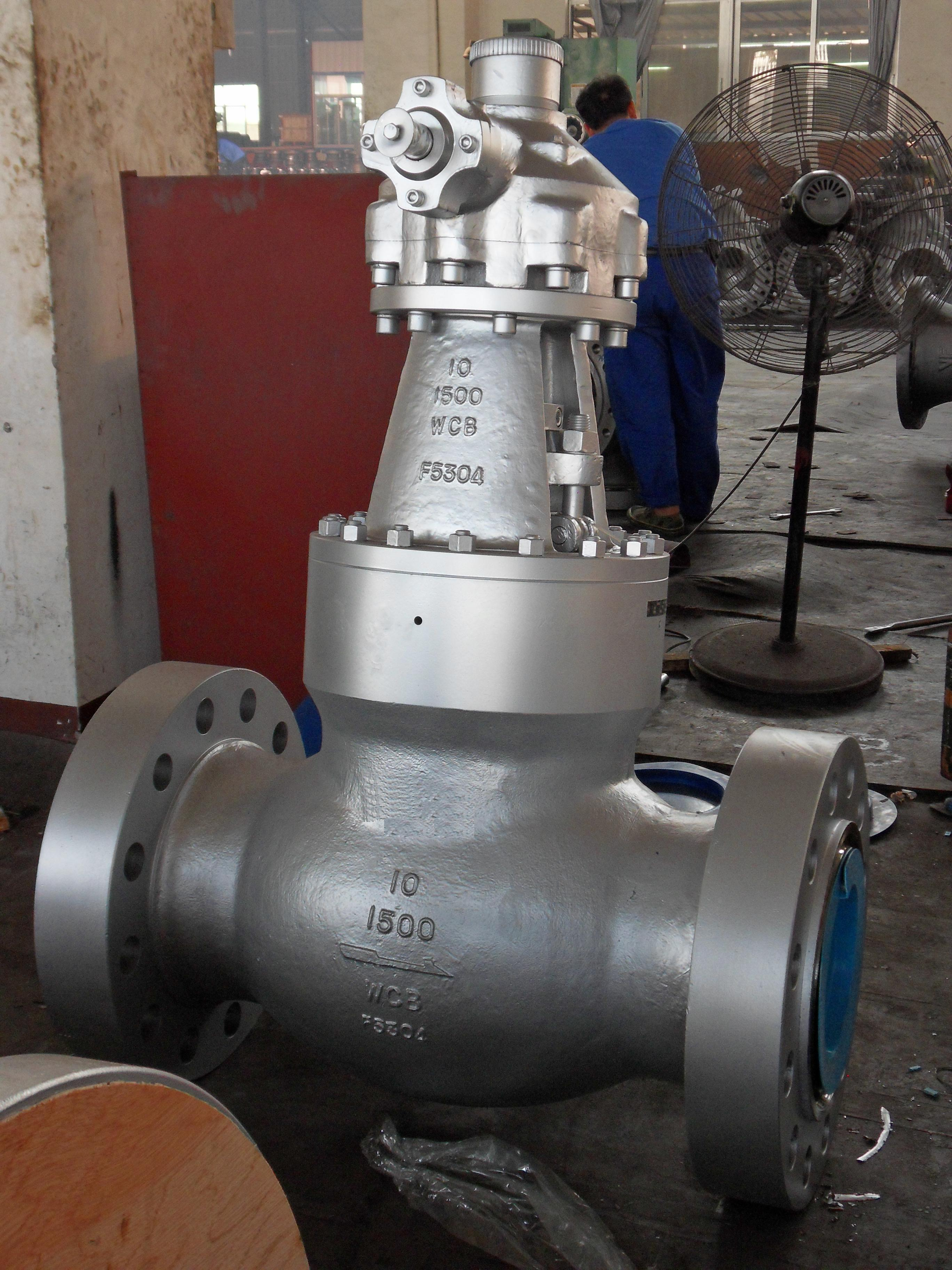 Check valves. Pressure seal bonnet. Valves and are generally made of plastic or steel, the latter being the most widely used in chemical and petrochemical applications. Steel grades range from the most common type, namely carbon steel, with standard stainless steel being the second most common. Stainless steel alloys, which include nickel or copper are used in applications that require higher corrosion or heat resistance. In such cases, the most commonly used valve configurations -- ball valves, gate valves, check valves, globe valves and butterfly valves -- are often forged or cast as duplex valves, super duplex valves, alloy 20 valves, monel valves, inconel valves, incoloy valves and 254 SMO valves (6Mo valves). Titanium valves are also used in some highly corrosive applications. Titanium is not a stainless steel alloy.